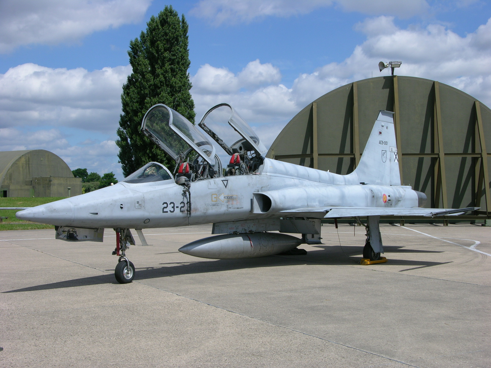 The most unusual aircraft at Dijon's open day in June 2008 were perhaps the two upgraded Spanish Air Force Freedom Fighters based at Talavera near the Portuguese border